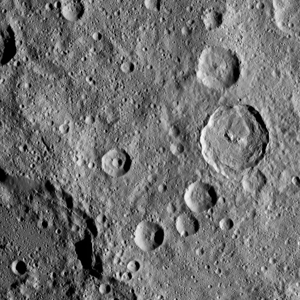 In this densely cratered area of Ceres, NASA's Dawn spacecraft spotted Tupo Crater, with its complex, hummocky interior, at center right. A portion of the rim of Darzamat Crater appears with dark shadows at lower left. Dawn took this image on Oct. 19 from its second extended-mission science orbit (XMO2), at a distance of about 920 miles (1,480 kilometers) above the surface. The image resolution is about 460 feet (140 meters) per pixel. Dawn's mission is managed by JPL for NASA's Science Mission Directorate in Washington. Dawn is a project of the directorate's Discovery Program, managed by NASA's Marshall Space Flight Center in Huntsville, Alabama. UCLA is responsible for overall Dawn mission science. Orbital ATK, Inc., in Dulles, Virginia, designed and built the spacecraft. The German Aerospace Center, the Max Planck Institute for Solar System Research, the Italian Space Agency and the Italian National Astrophysical Institute are international partners on the mission team. For a complete list of mission participants, For more information about the Dawn mission, visit